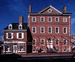 The City Tavern, part of Independence National Historic Park in Philadelphia, Pennsylvania (USA).